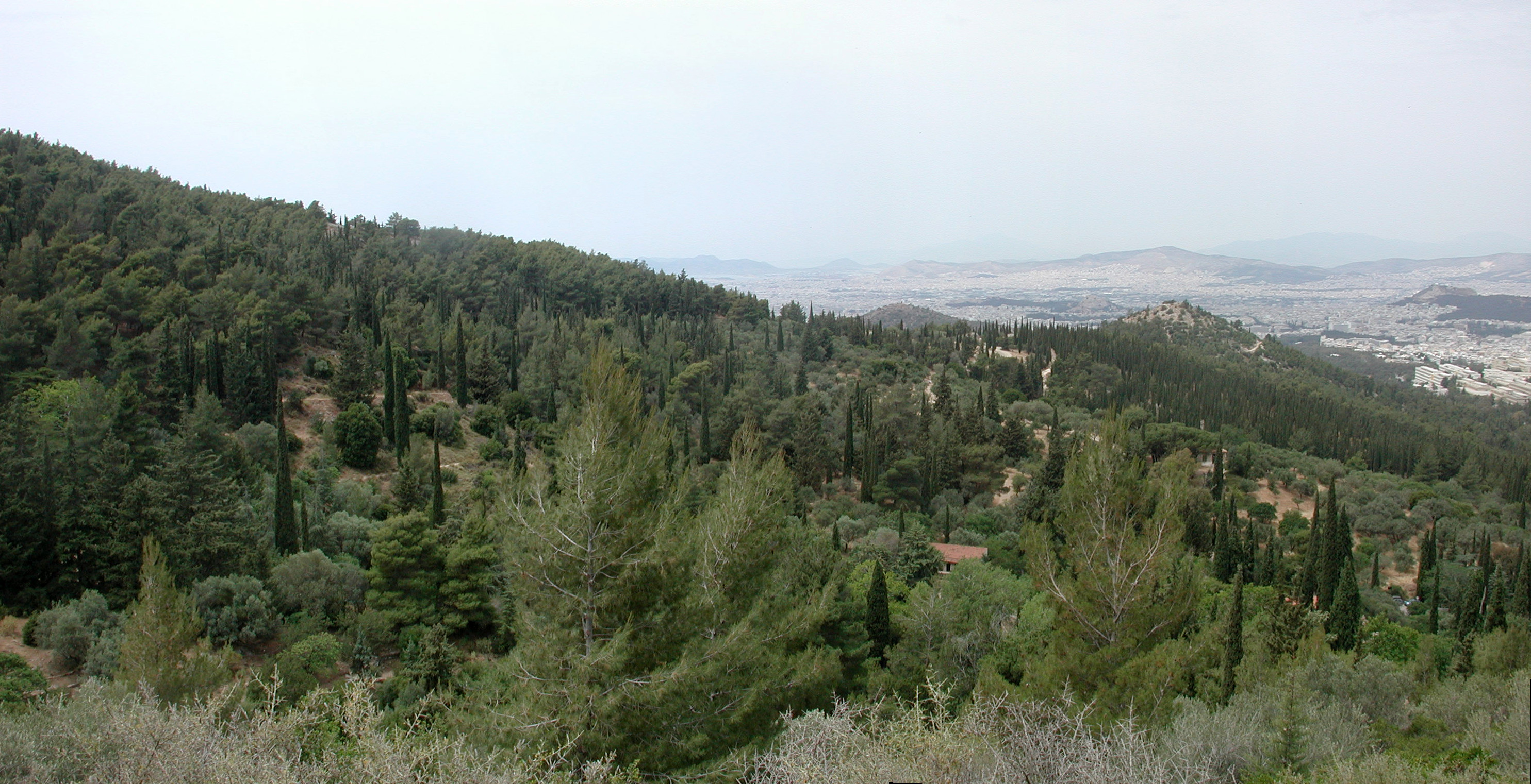 This is a photography of Natura 2000 protected area with ID GR3000006